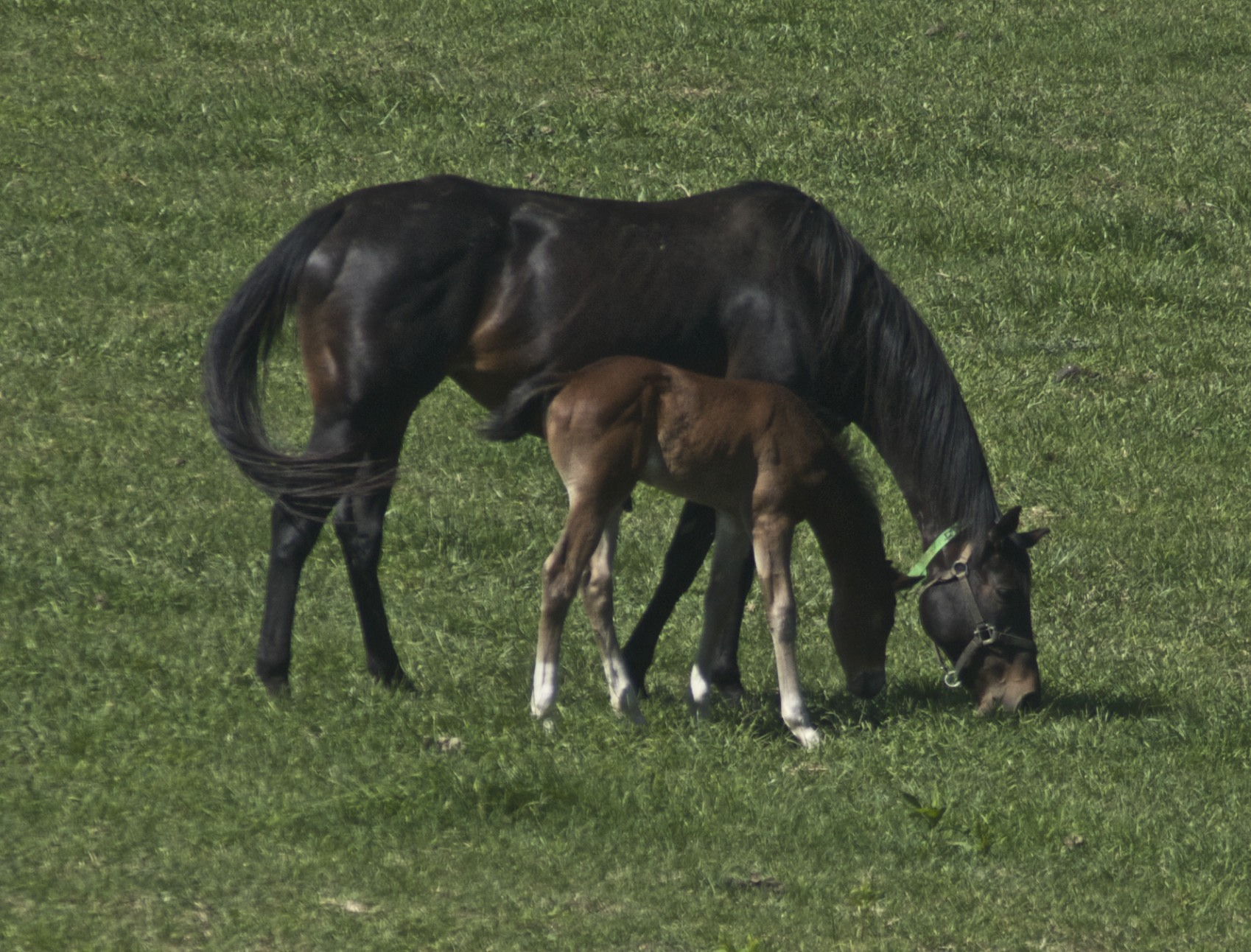 Thoroughbred Mare & Foal